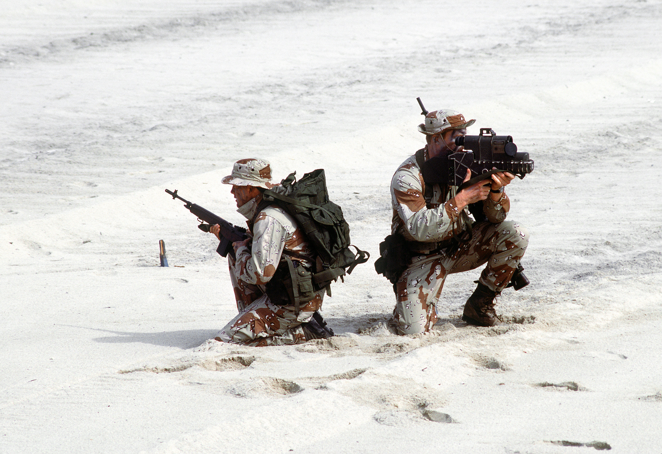 Two Sea-Air-Land (SEAL) team members, one equipped with an AN-PAQ-1 laser target DESIGNATOR, right, the other armed with an M-14 rifle, assume a defensive position after assaulting the beach during an amphibious demonstration for the 14th Annual Inter-American Naval Conference.Location: Naval Amphibious Base Little Creek, Virginia (VA), United States of America (USA)